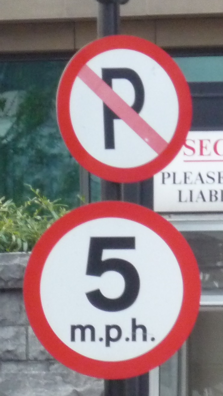 A 5 mph sign in Dublin, Ireland in 2009, m.p.h. is marked to avoid confusion with metric signs.